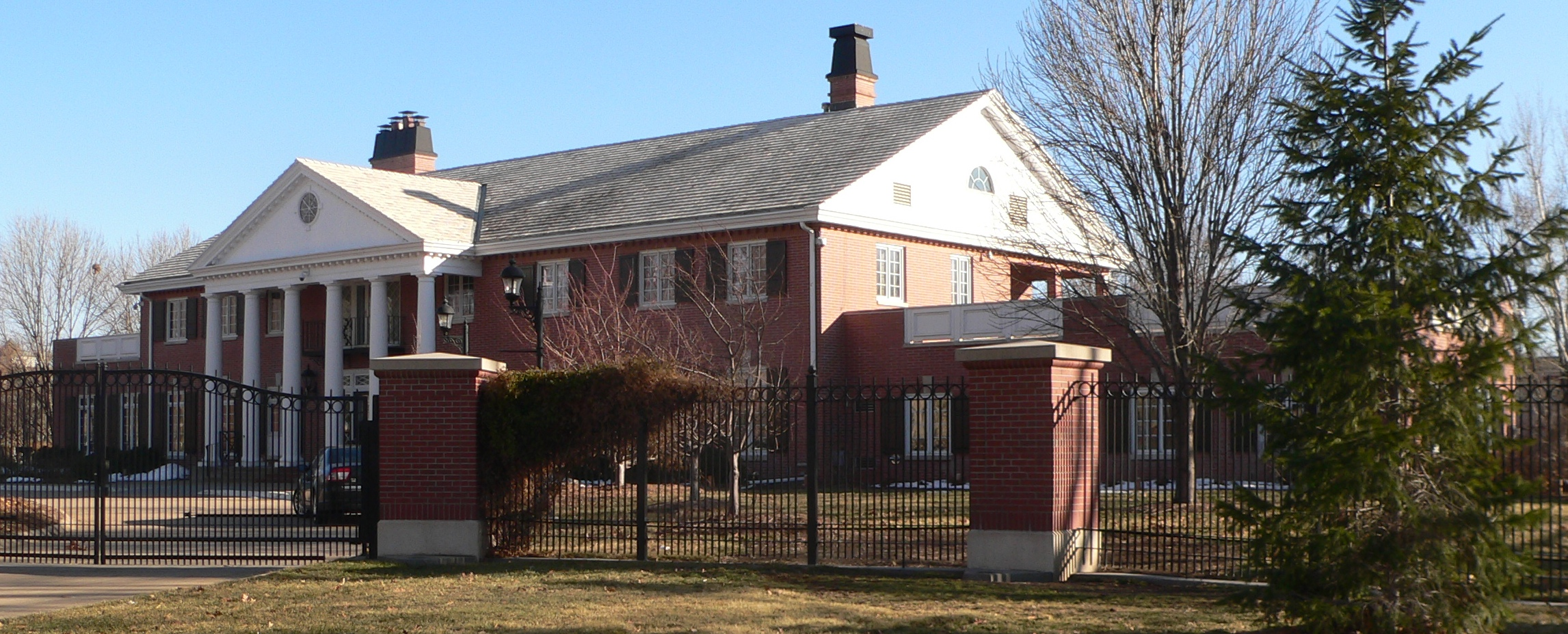 Nebraska Governor's Mansion, located between 14th Street and Goodhue Boulevard, and between G and H Streets in Lincoln, Nebraska; seen from the northwest. The gate at left leads onto H Street.